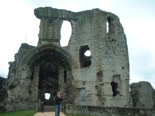 Denbigh Castle